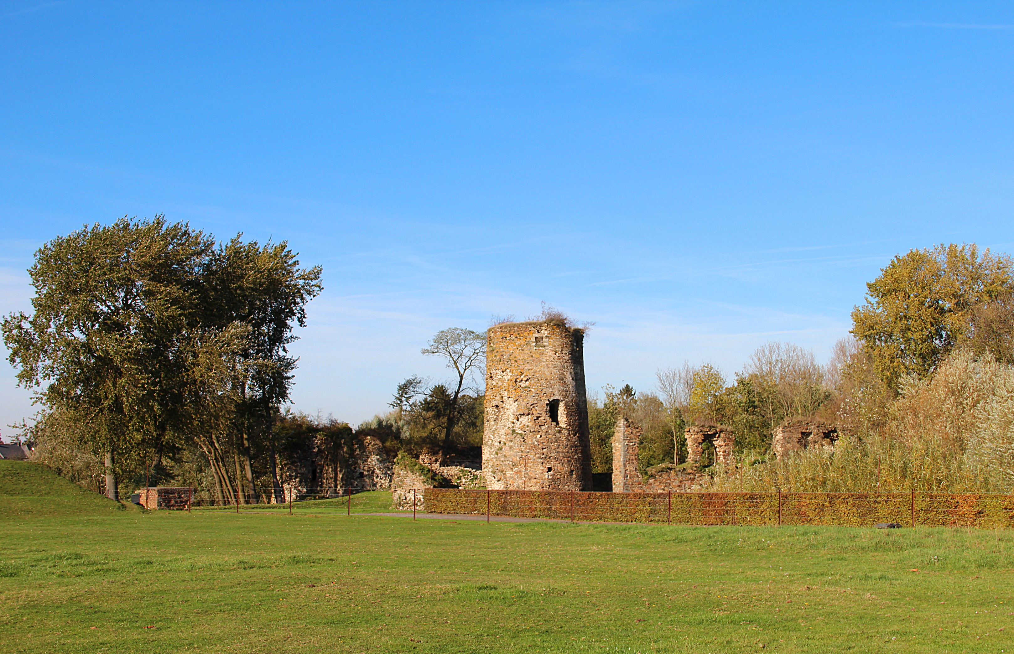 Walhain (Belgium), ruins of the castle (XIIth century).